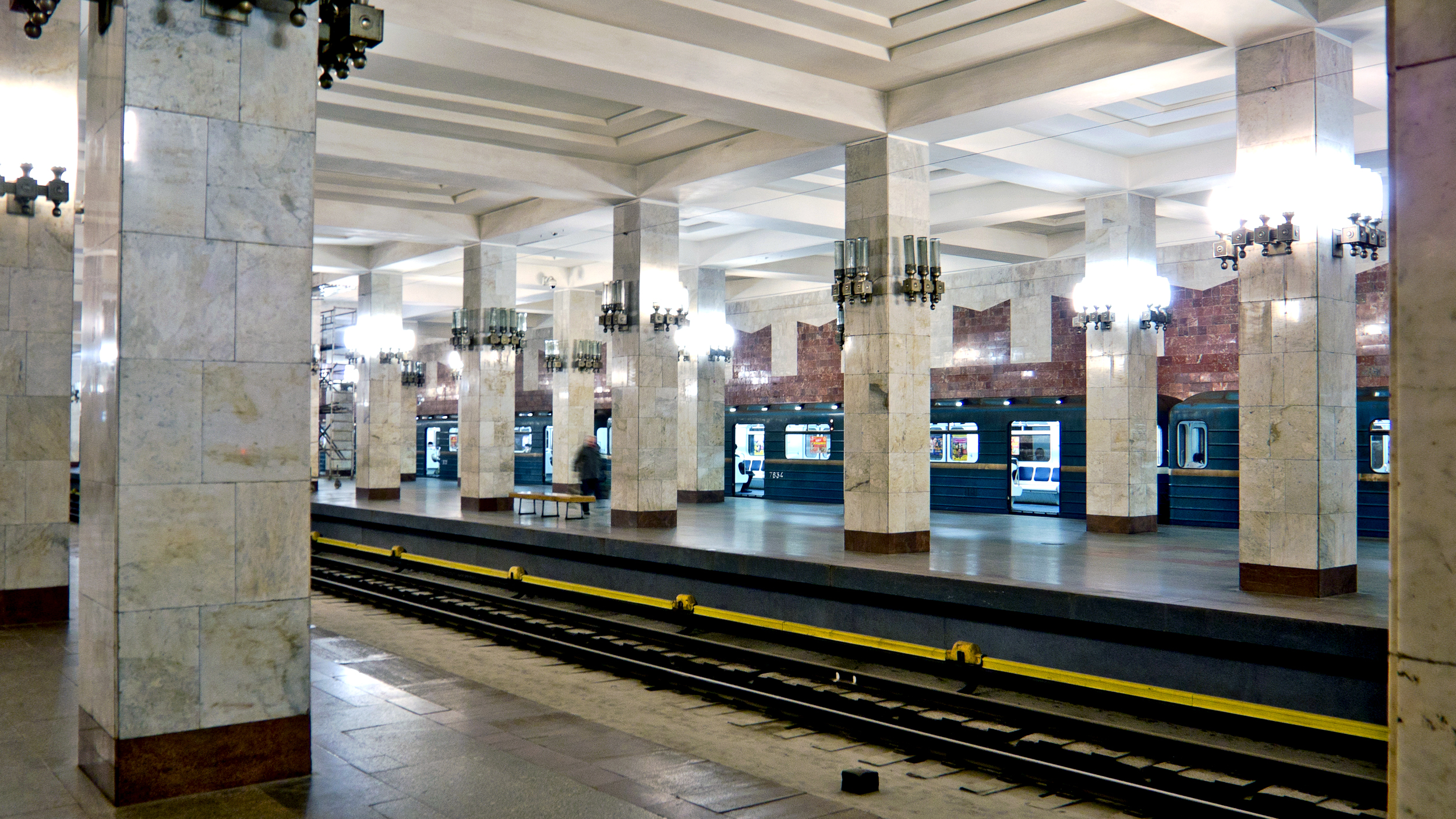 Moskovskaya station of Nizhny Novgorod Subway